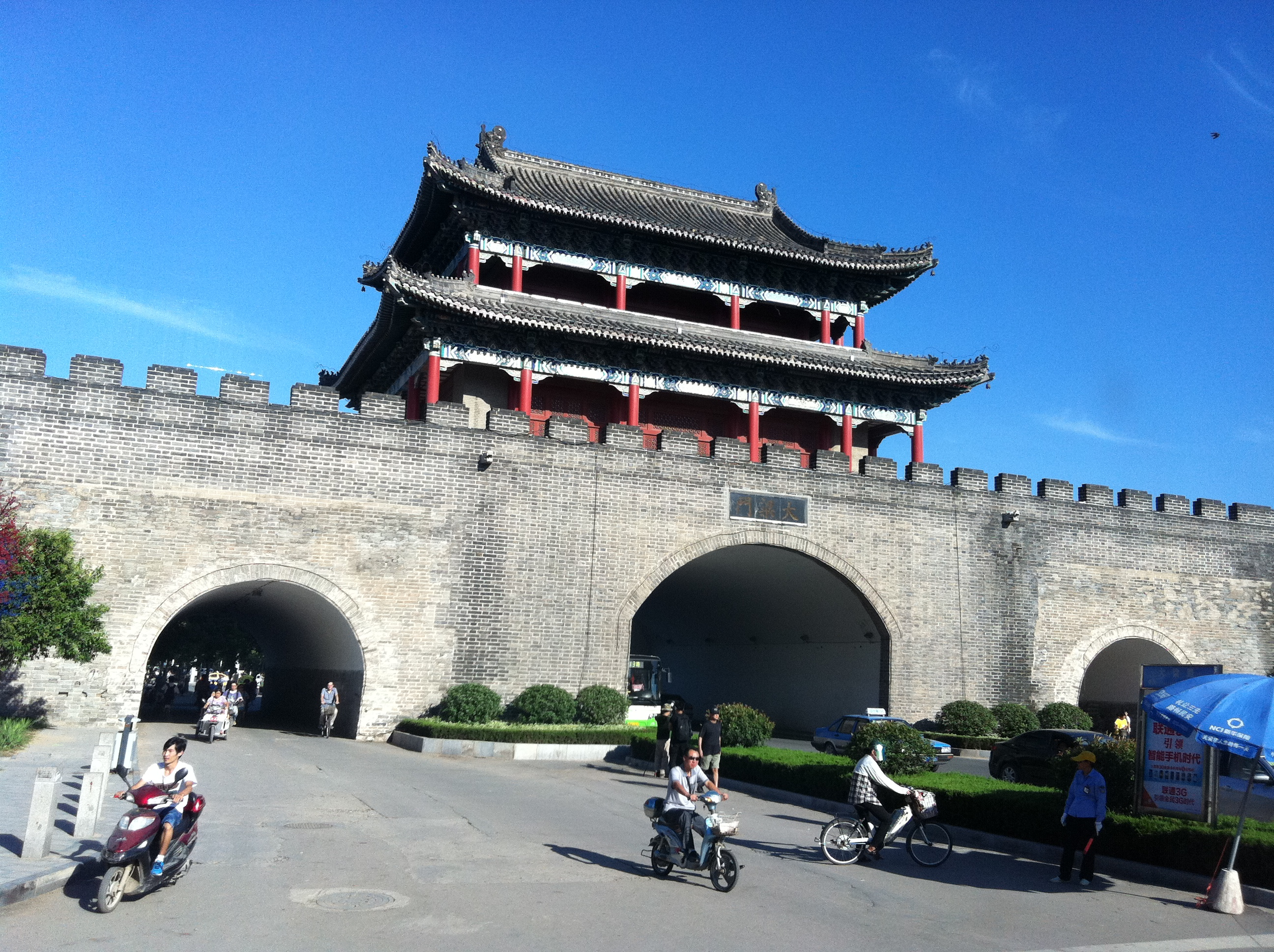 Daliang City Gate in Kaifeng,Henan,China.